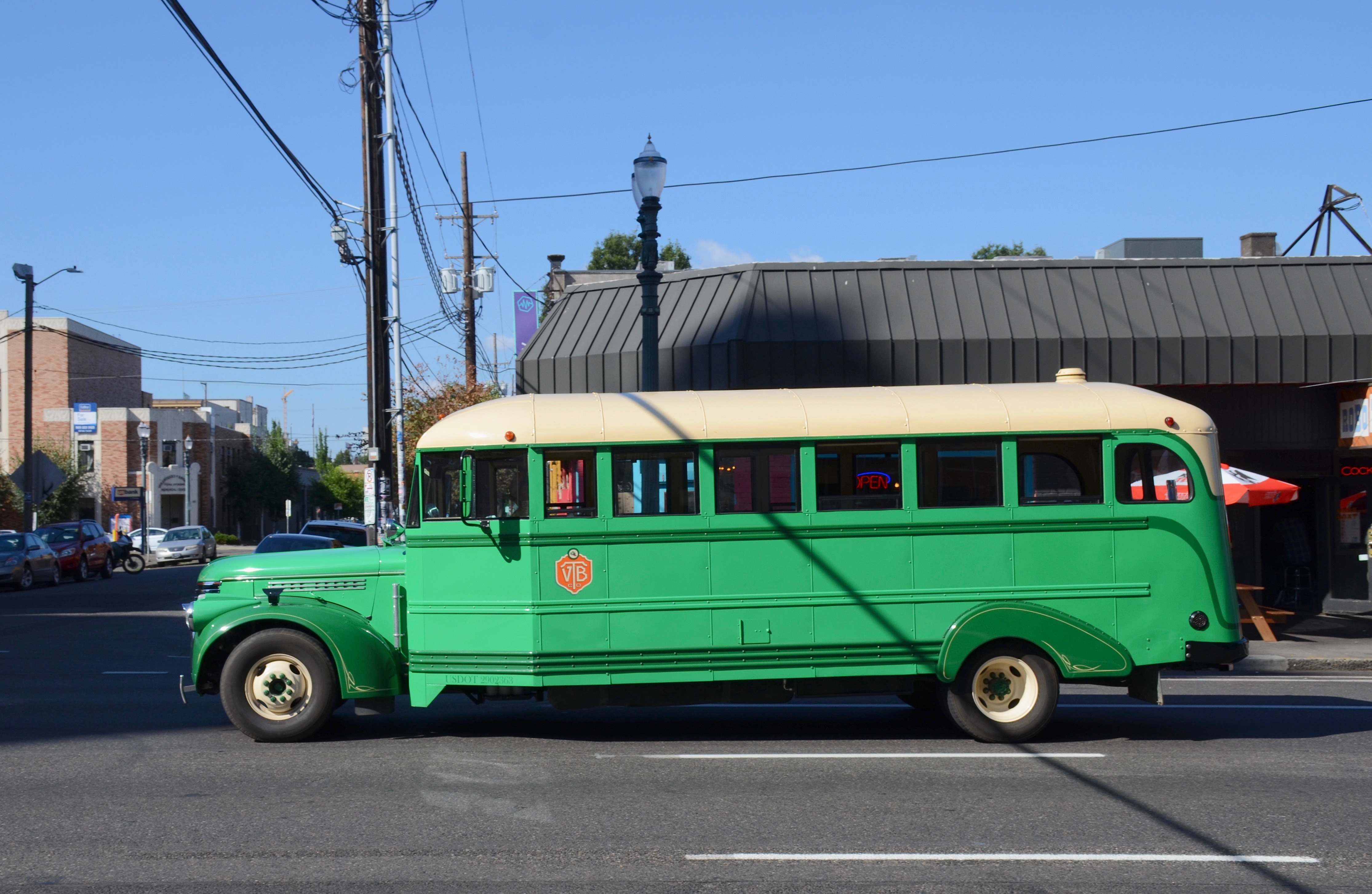 A restored former school bus built in 1945 by the Wayne Corporation on a Chevrolet chassis, now owned by the Vintage Tour Bus Company, a charter bus company based in Portland, Oregon. The bus is seen westbound on SE Morrison Street at SE 6th Avenue.